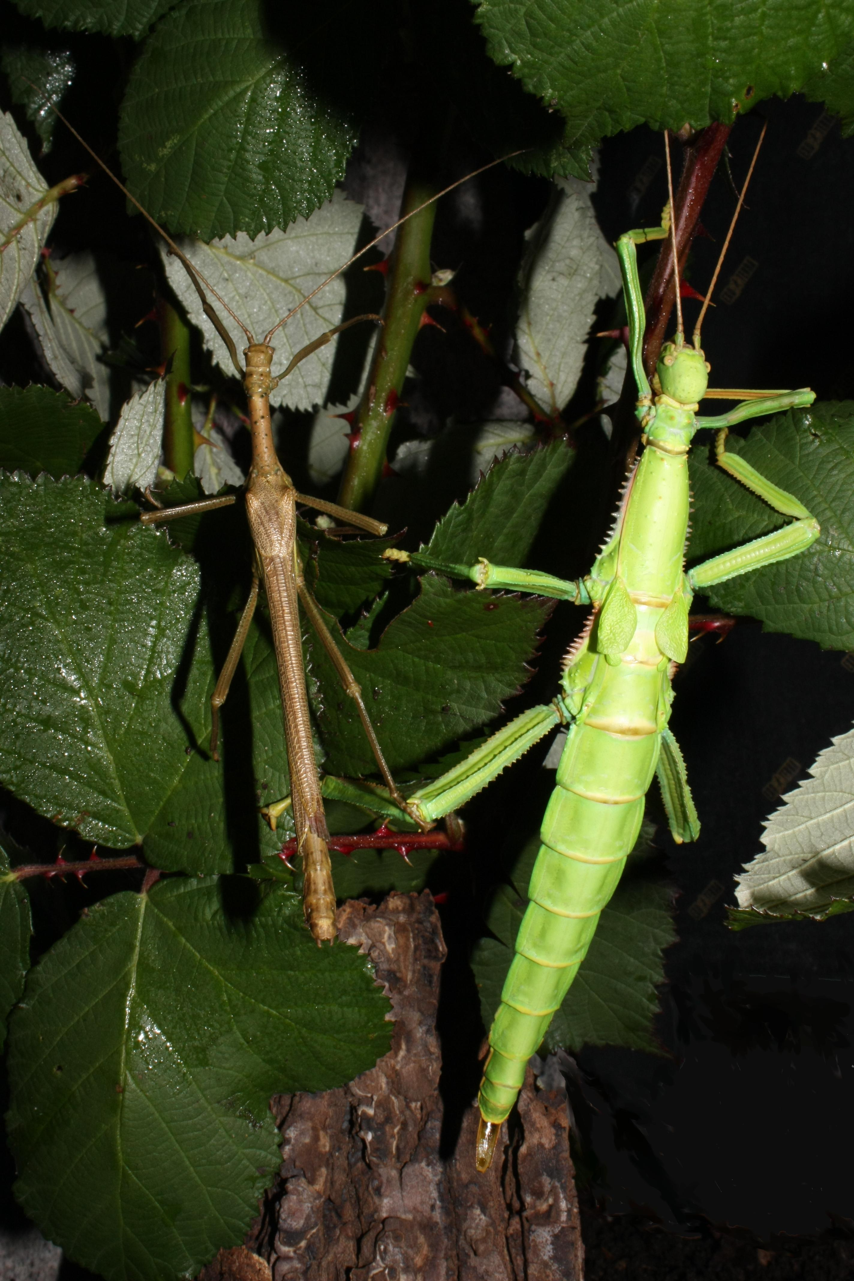 Pair of Diapherodes gigantea (male left, female right)